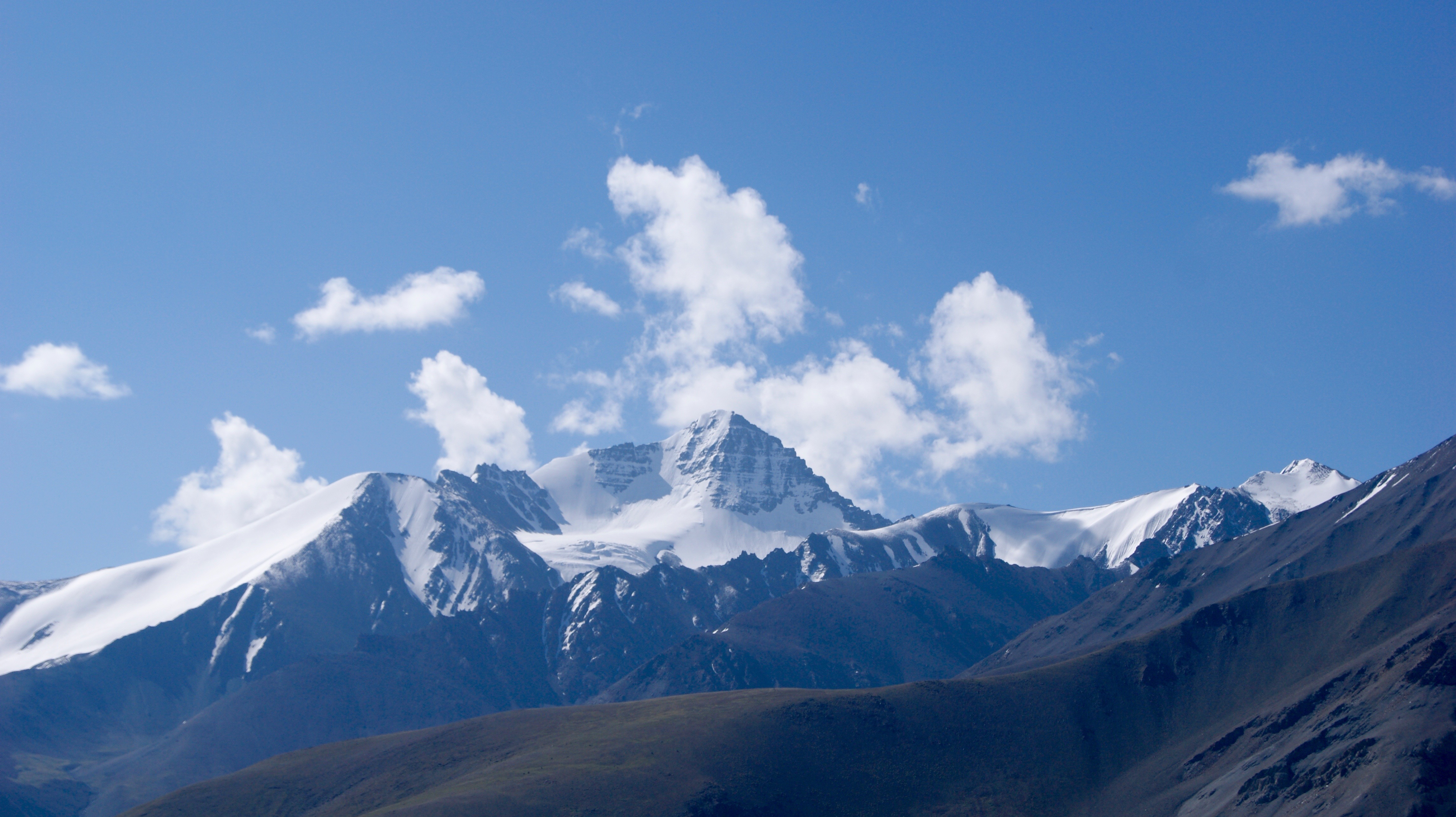 View of Stok Kangri's western flank, from Ganda ri